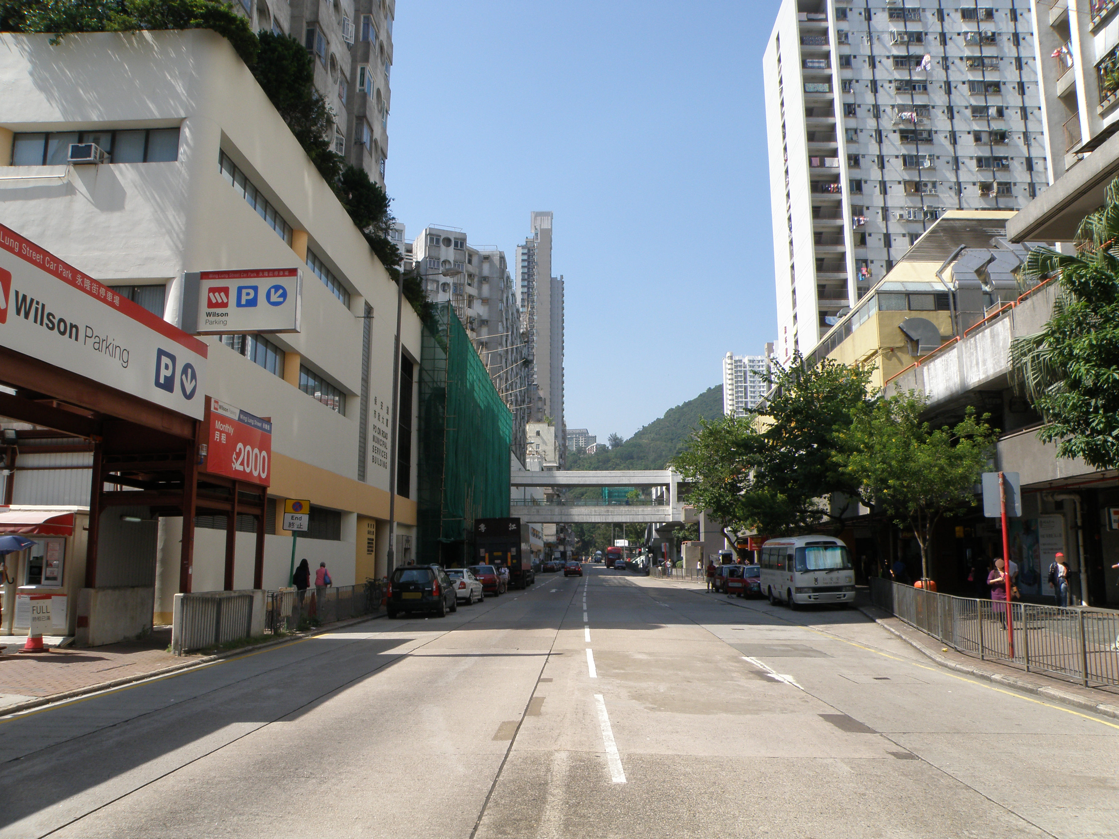 Po On Road in Cheung Sha Wan, Hong Kong.